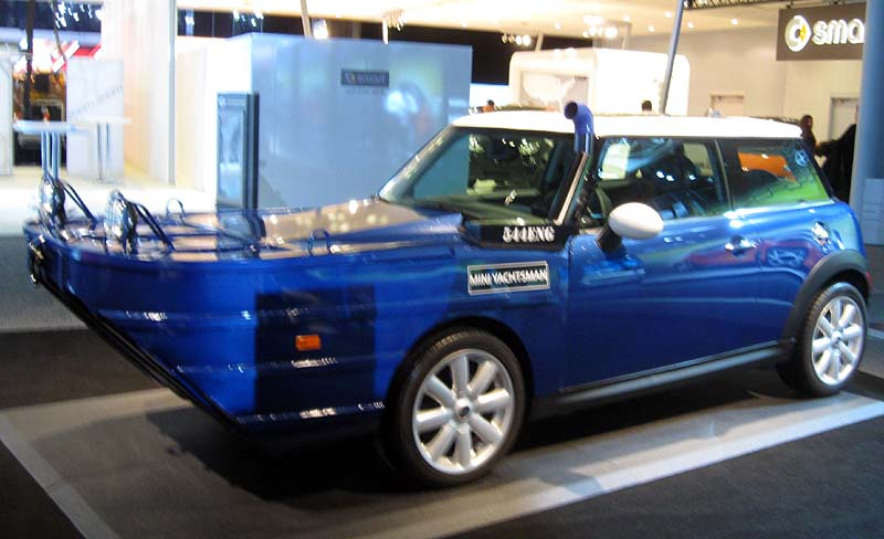 Mini Yachtsman, the company's 2012 April Fool's joke, photographed at the 2012 New York International Auto Show.